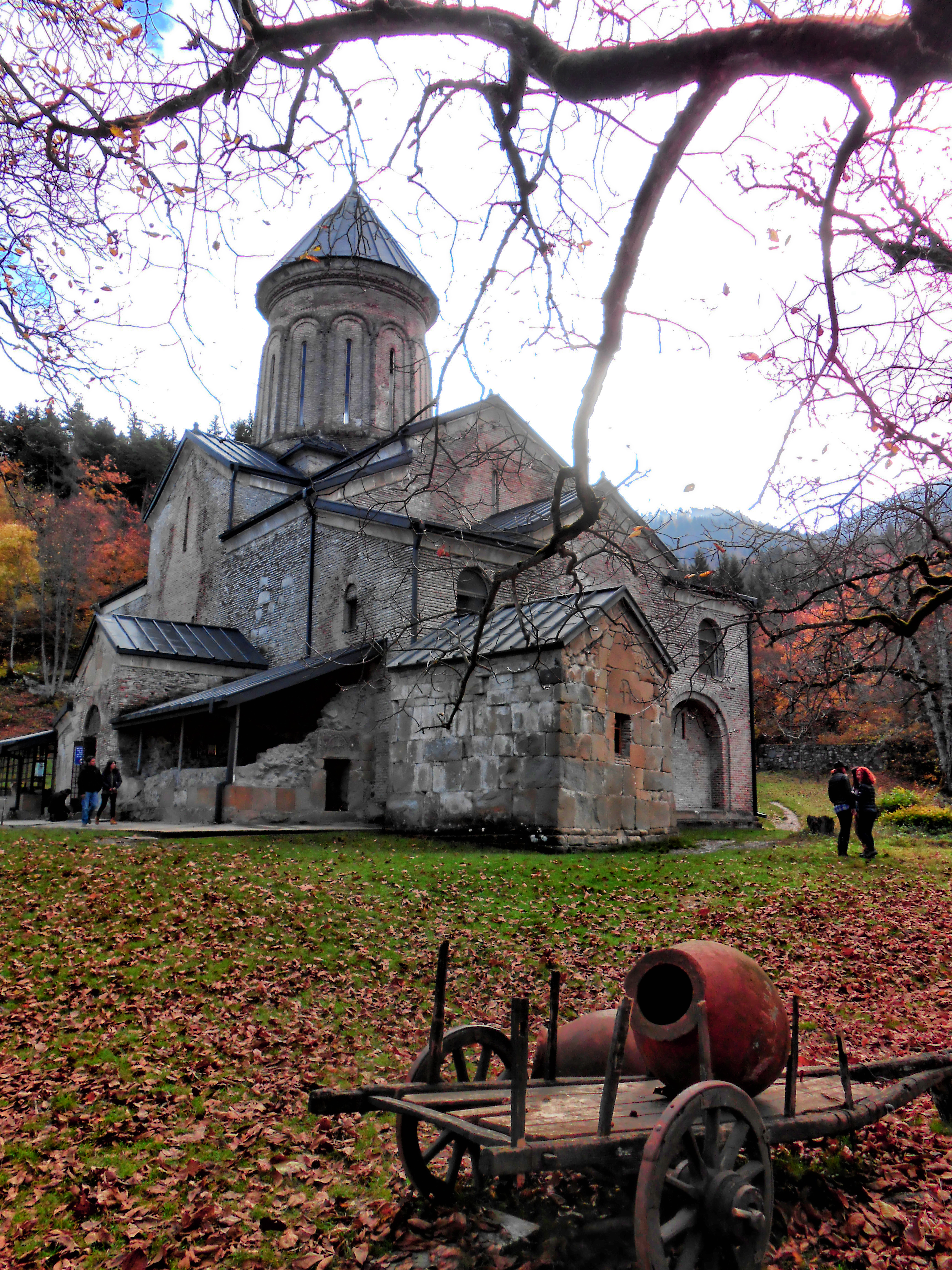 KintsvisiMonastery XII-XIII centuries